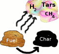 Pyrolysis. Original description: By Claus Hindsgaul. First appeared on